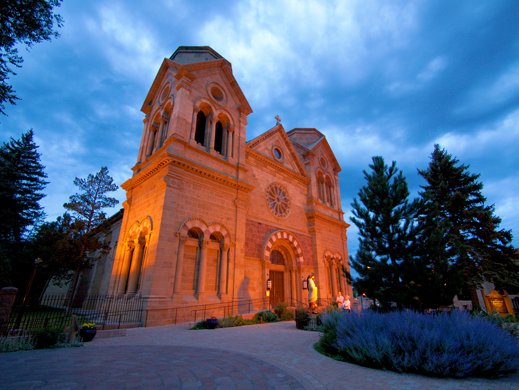 Santa Fe, Saint Francis Cathedral Basilica